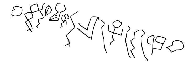 Wadi el-Hol inscriptions no° I, drawing. a Proto-Canaanite alphabet. found in 1998, dated to the 18th c. BCE. R-B-Q-W-M-W-H-W-Gor P-M-H?-A-Ah?-M-Ghor Hh-R? (right to left)